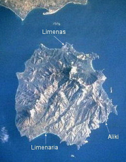 Satellite photo of the Greek island of Thasos with location of the peninsula of Aliki.